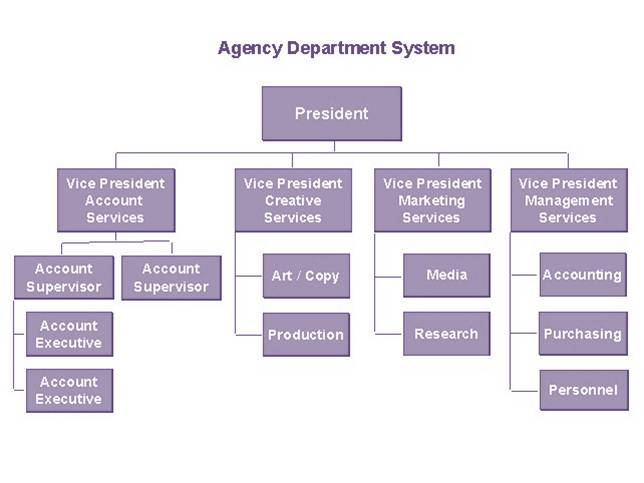 Hierarchy of departments.